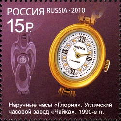 Wrist watch "Gloria"